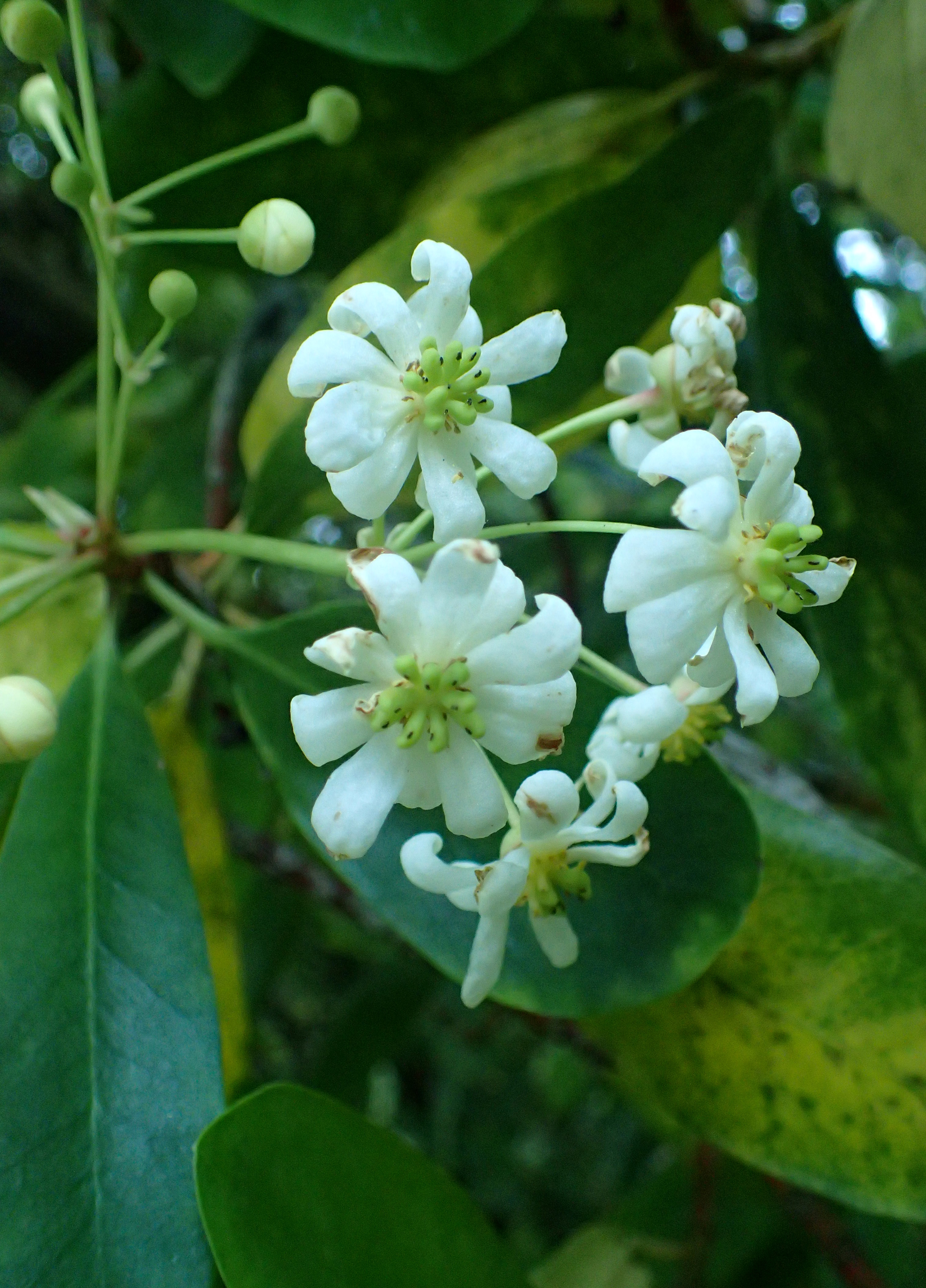 Drimys winteri in the San Francisco Botanical Garden